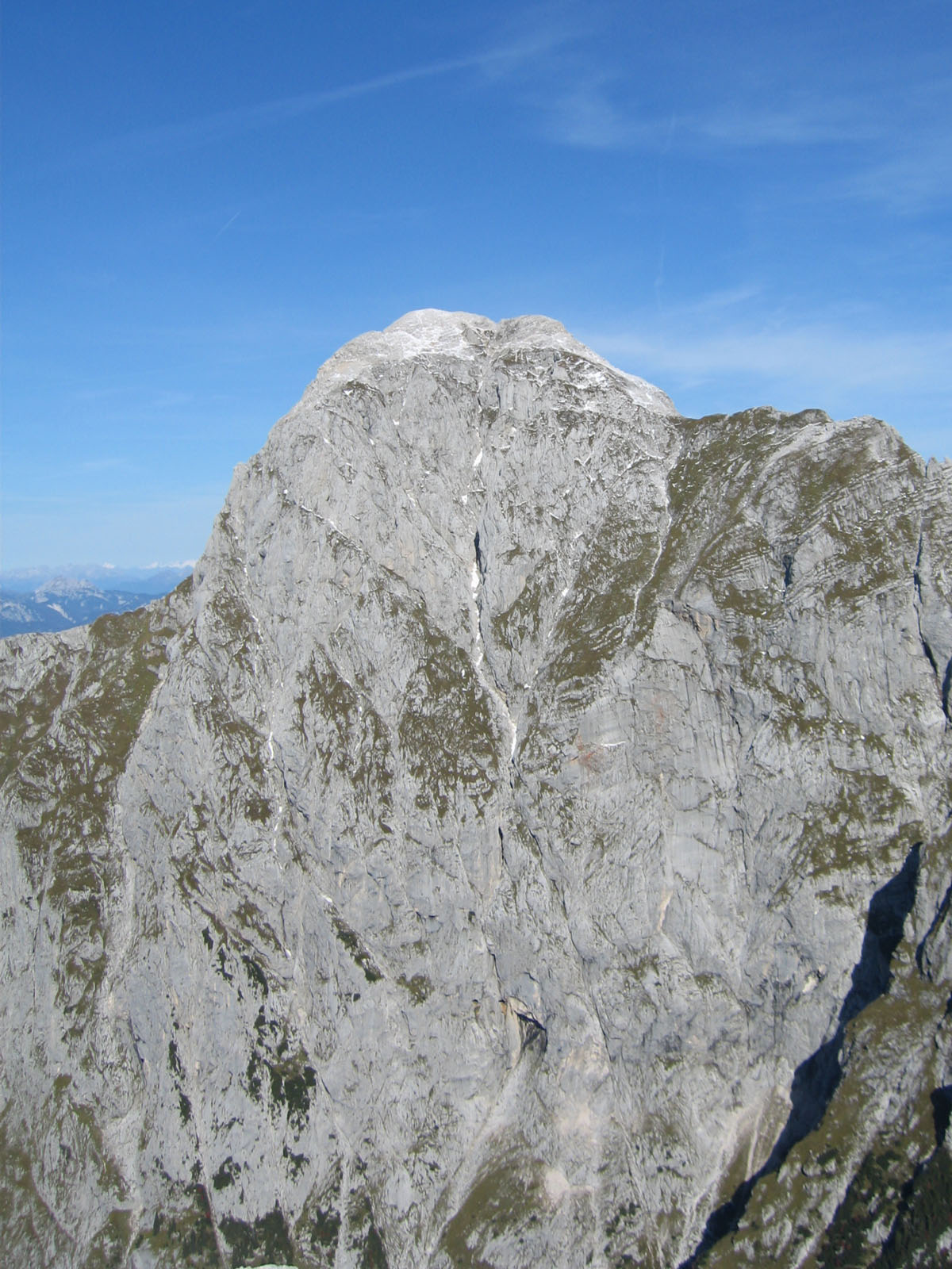 Southern wall of Mt. Mangart (2679 m) above the Koritnica valley.